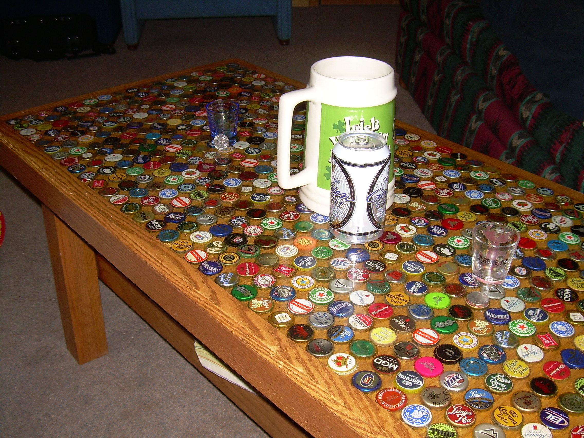 This is the layout for the polular drinking game known as Speed Quarters. On opposite sides of the table players bounce quarters into a shot glass. They have as many tries as they want, but once a quarter is made the shot glass and quarter are passed to the left. If a shot glass catches up to another and laps it, the person who was lapped has to drink the contents of the mug in the center. It is up to the house rule to decide how much beer is consumed for losing.